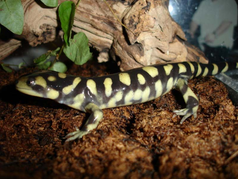 An adult male tiger salamander (Ambystoma tigrinum) in captivity.